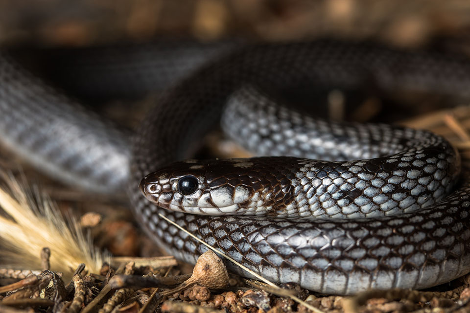 Konstantinos Kalaentzis Eirenis modestus melanisticKastellorizo